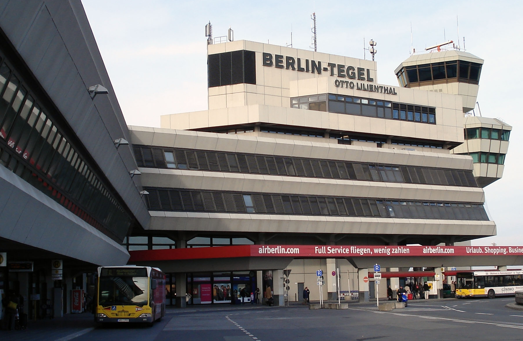 Entrance area of airport Berlin-Tegel (TXL/EDDT)